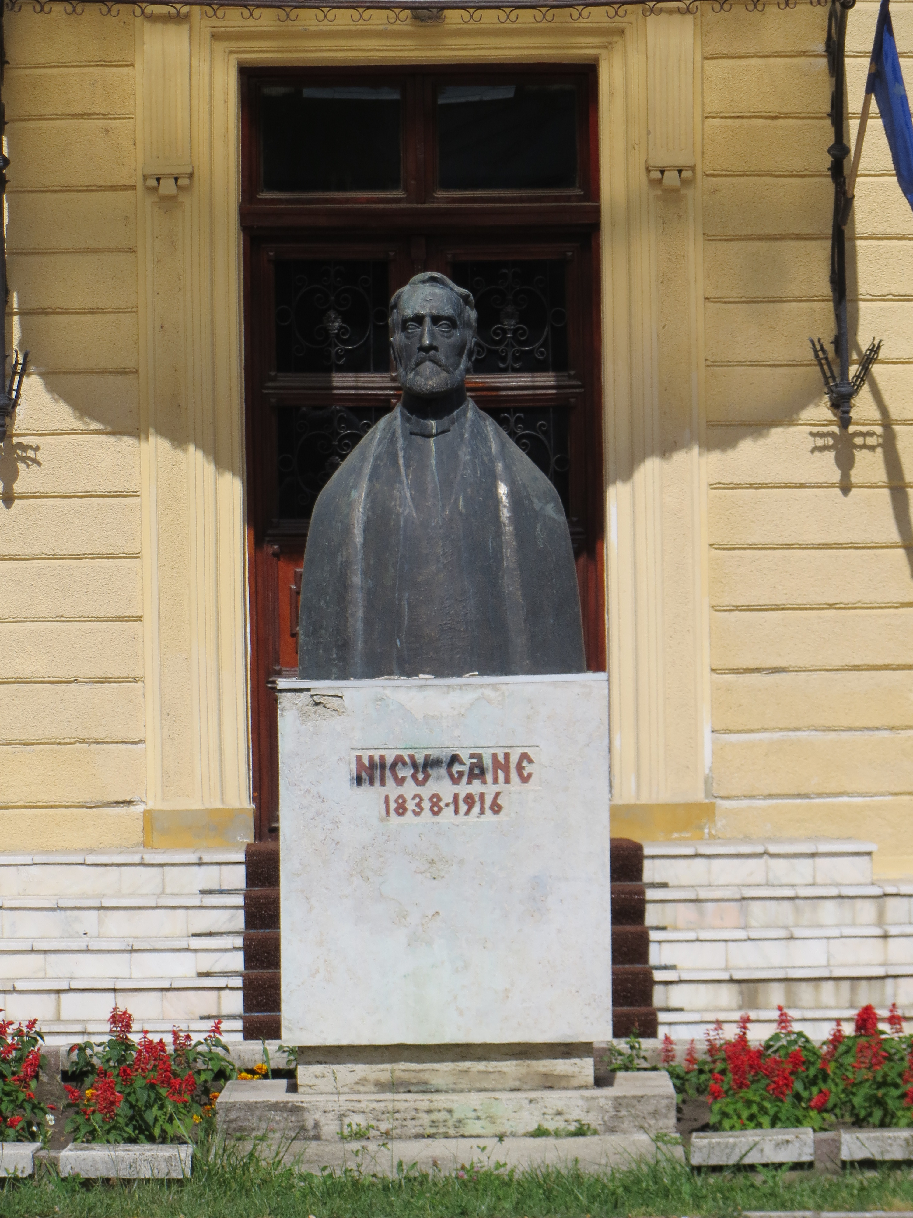 Bust of Nicu Gane, Fălticeni, Suceava County, Romania.